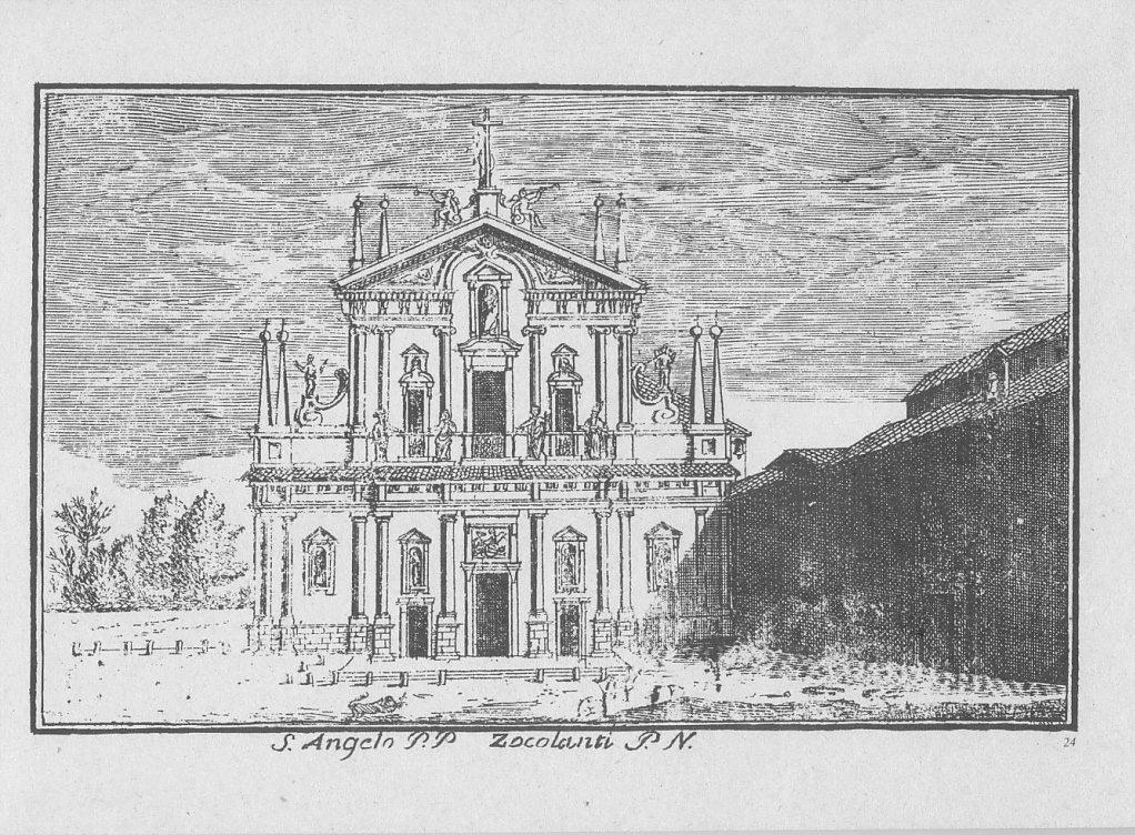 Marc'Antonio Dal Re (1697-1766), Sant'Angelo, owned by the Franciscan friars in Milan. This engraving is # 24 from a set of 88 Vedute di Milano ("Views of Milan") published by Del Re around 1745.